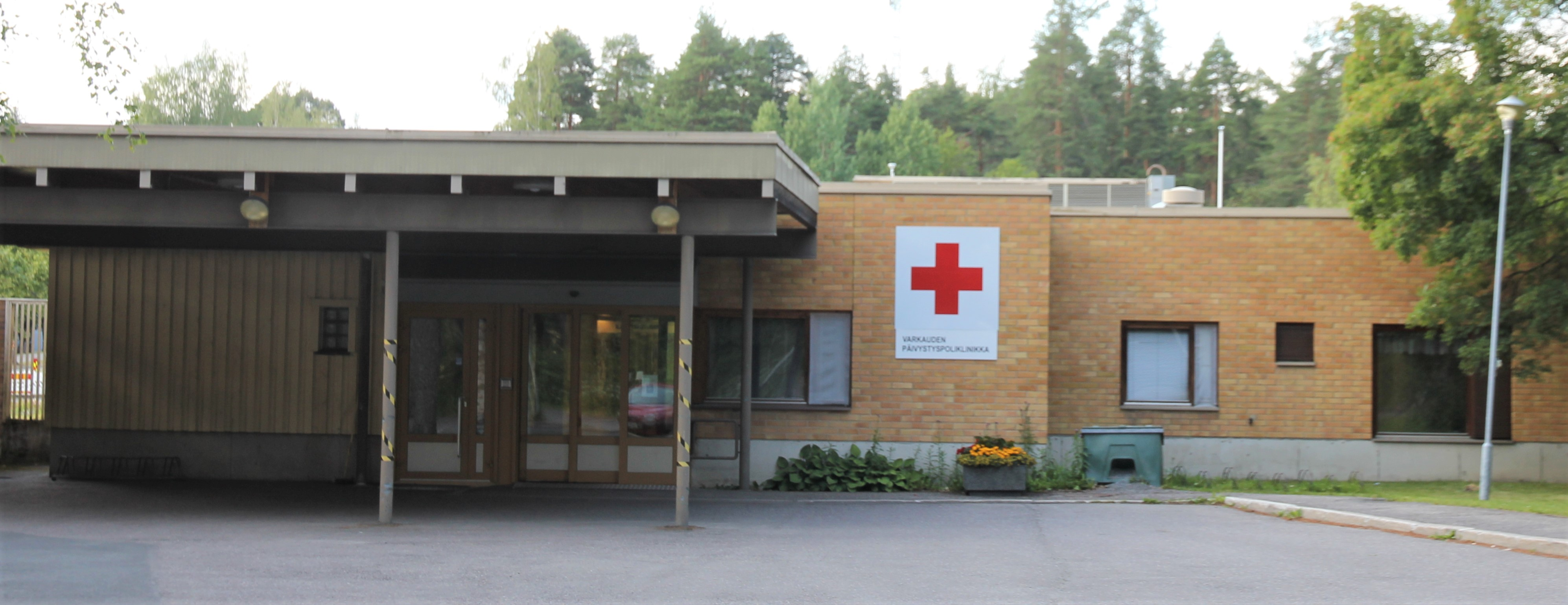 Varkaus health centre and hospital, located in Savontie 55, Kommila, Varkaus, Finland.